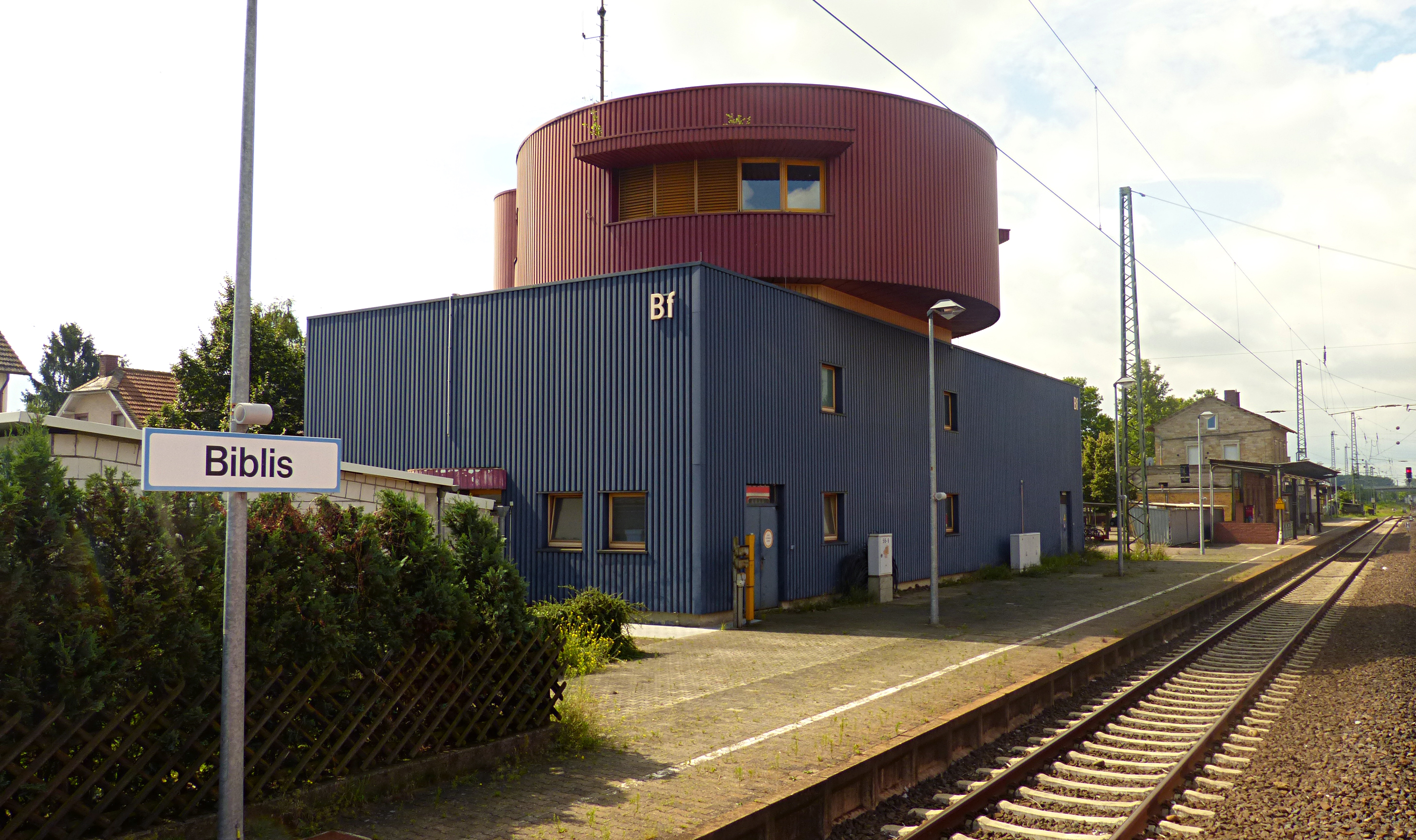 Signal Box at Biblis trainstation, Germany